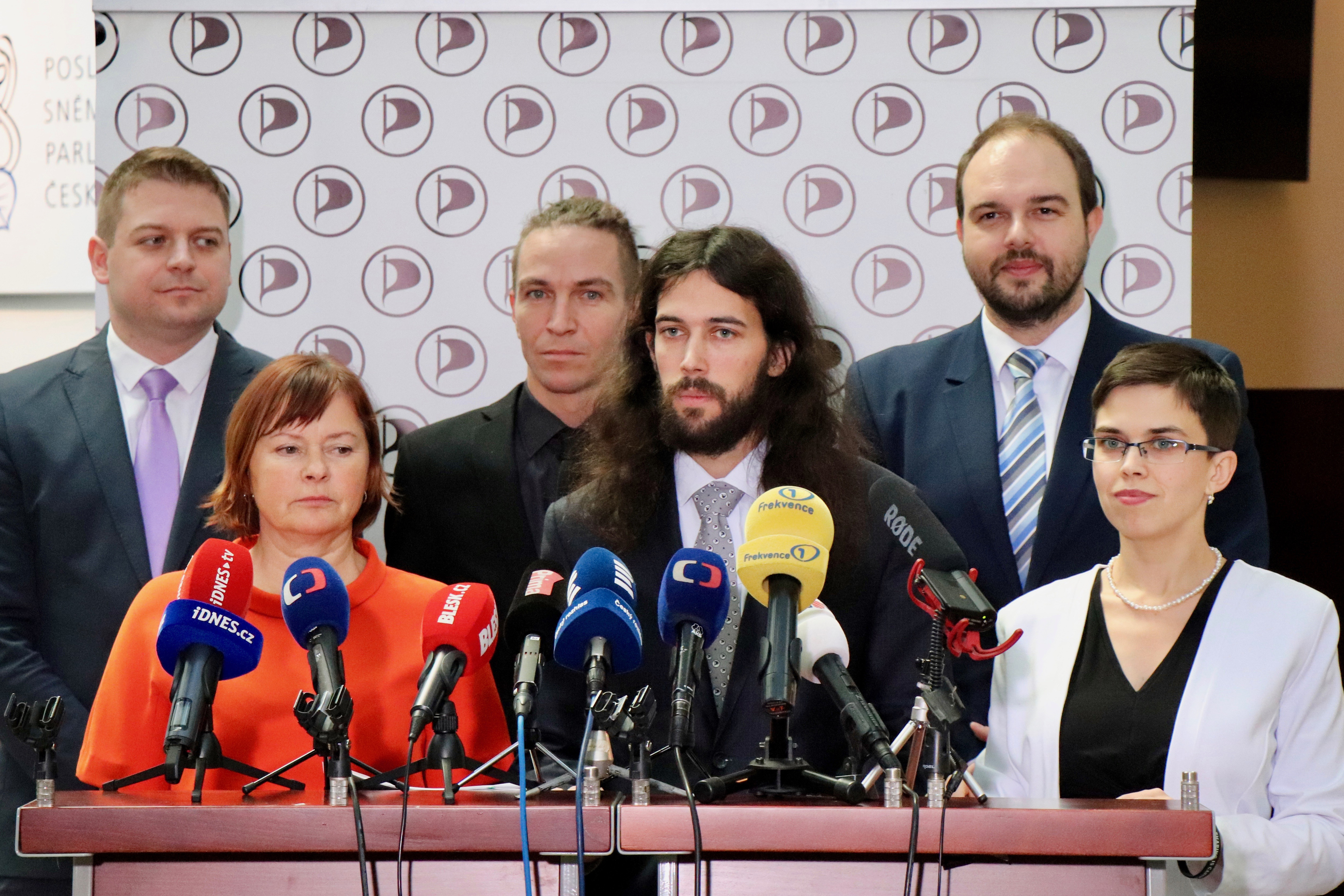 Czech Pirate Party press conference 4 December 2018